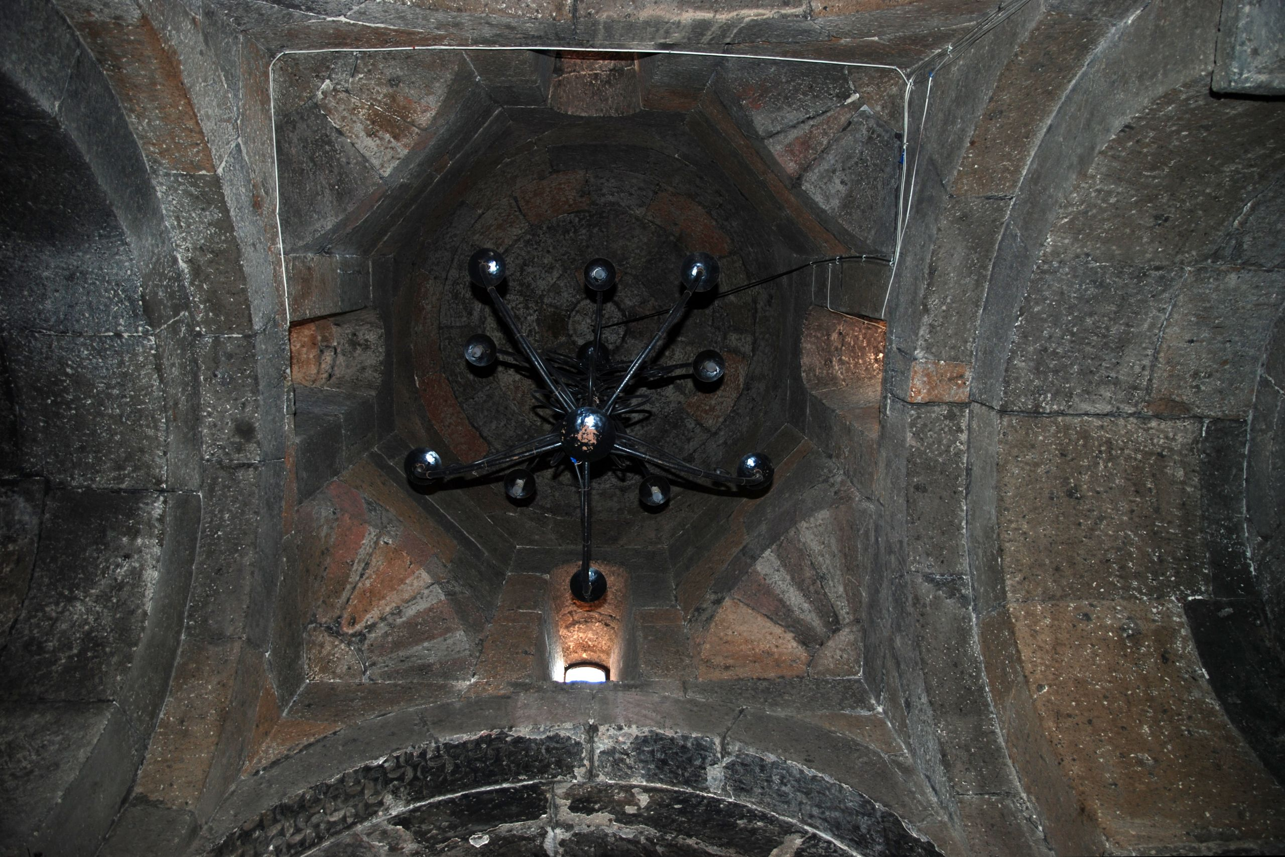 Karmravor church in Ashtarak